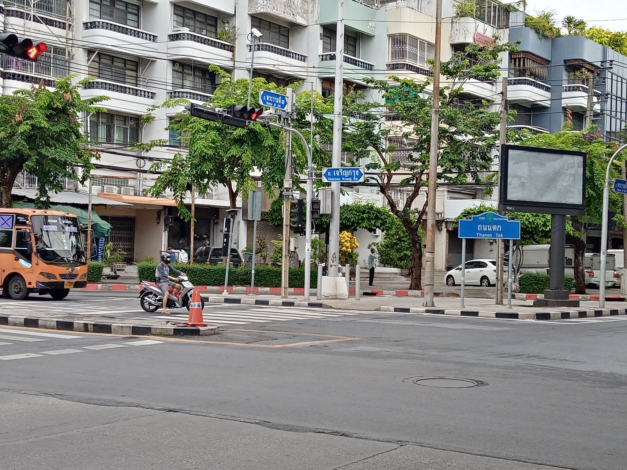 Thanon Tok, the end of New Road